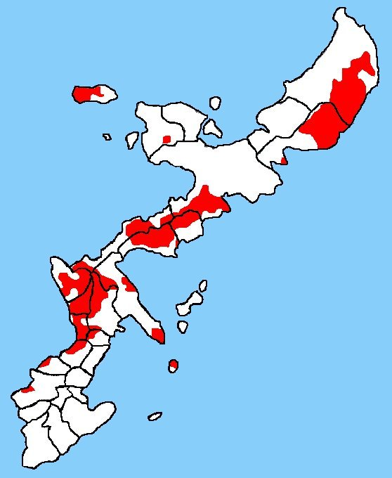 US Military bases in Okinawa, see also Image:US Military bases in Japan.jpg